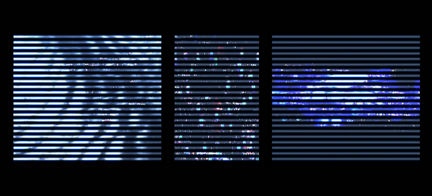 Tim White-Sobieski Terminal 3 Terminal Dream 2003 LED video tube wall installation 3 channels